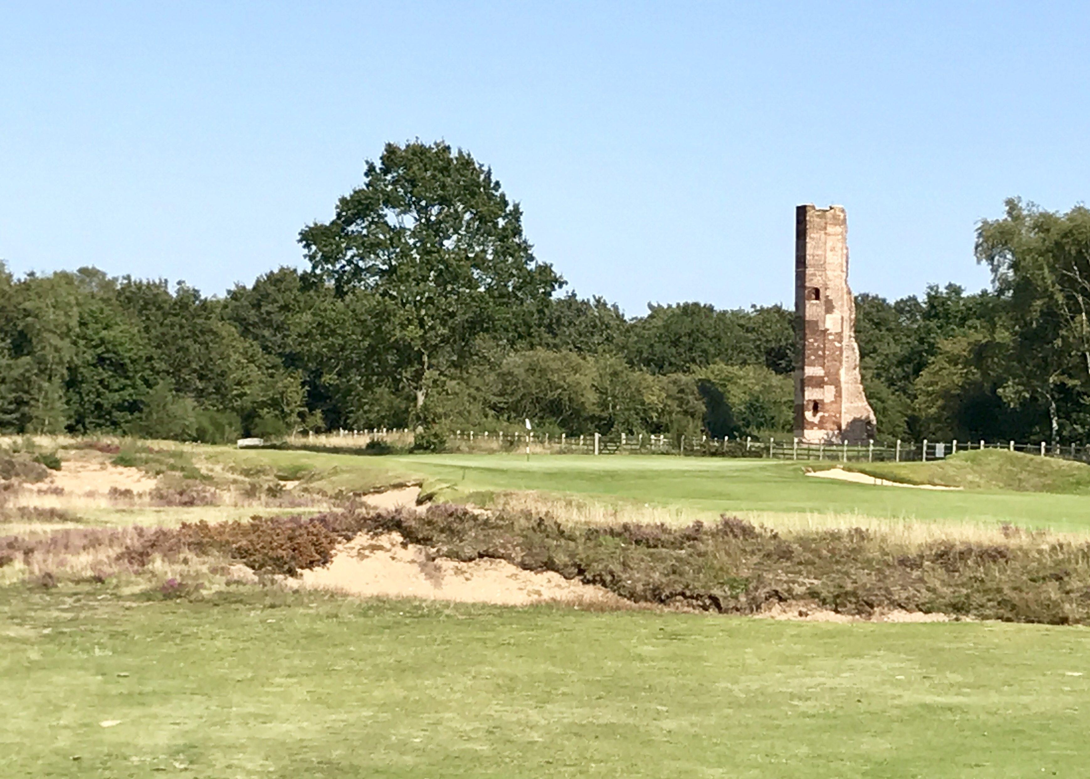 WSGC 3rd Hole